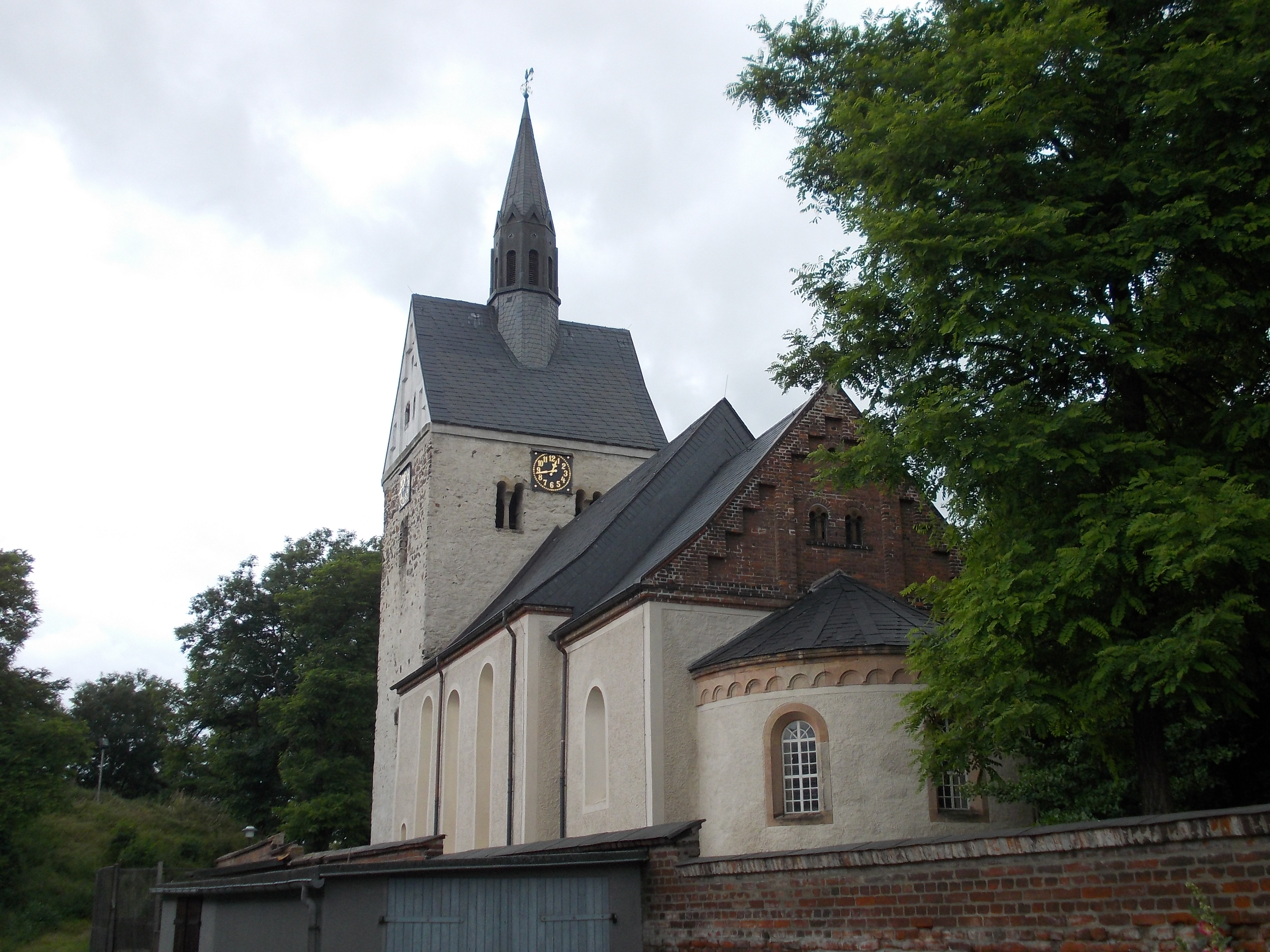 Spören church (Zörbig, Anhalt-Bitterfeld district, Saxony-Anhalt)